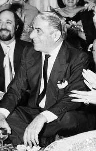 Onassis in Persia, 1973